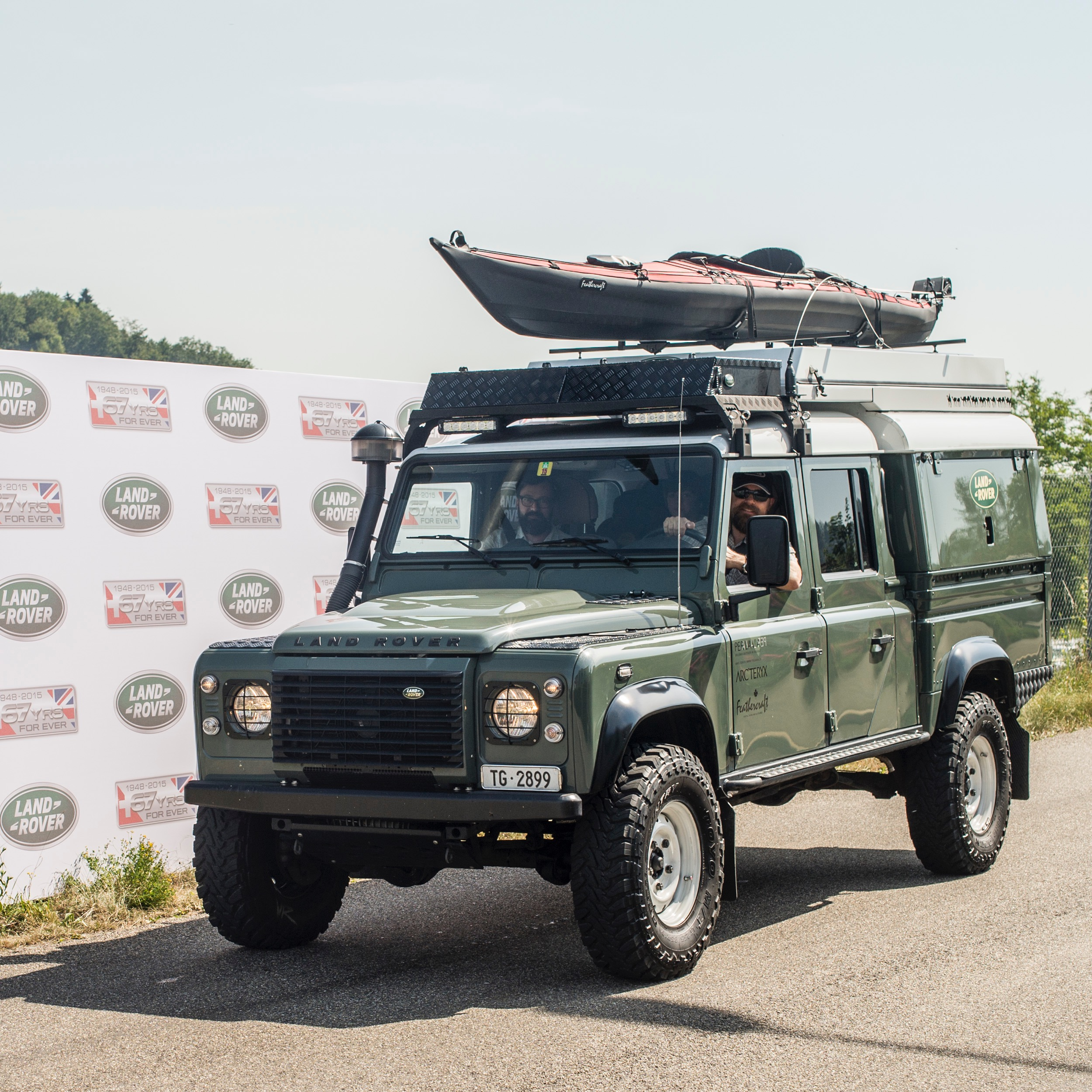 Fully equipped Land Rover Defender 130 CC from 2011